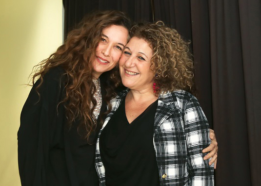 Maki Haham Neaman and Yael Abecassis